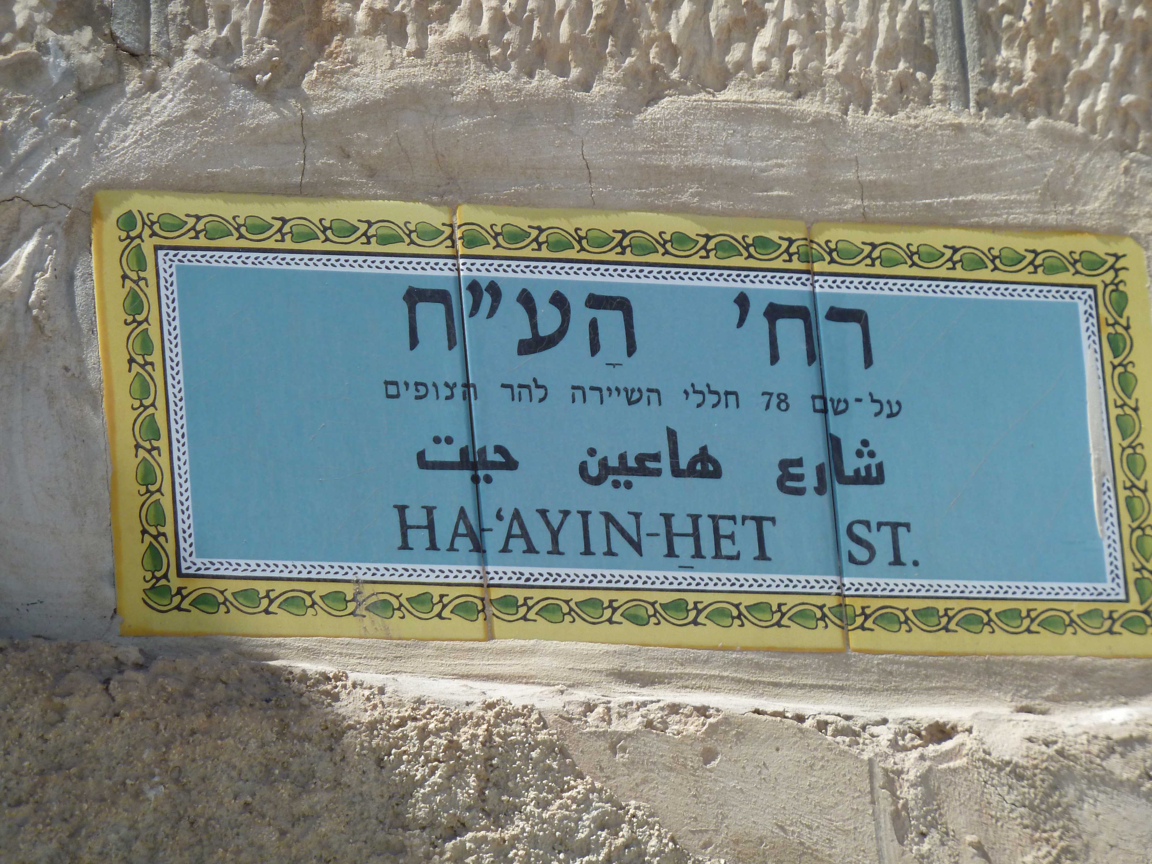 Musrara, Jerusalem